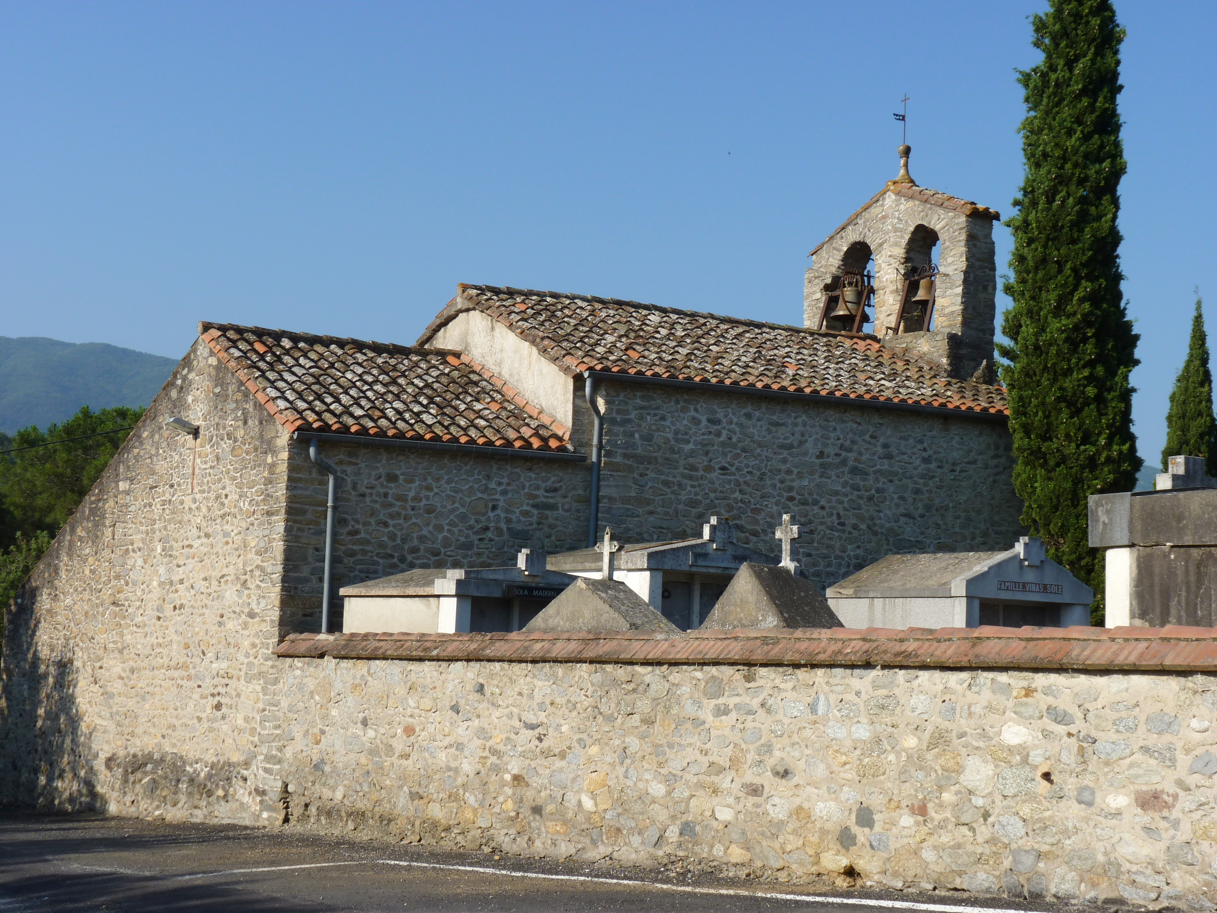 Church of Le Vila, Reynès (Pyrénées-Orientales, Languedoc-Roussillon, France)